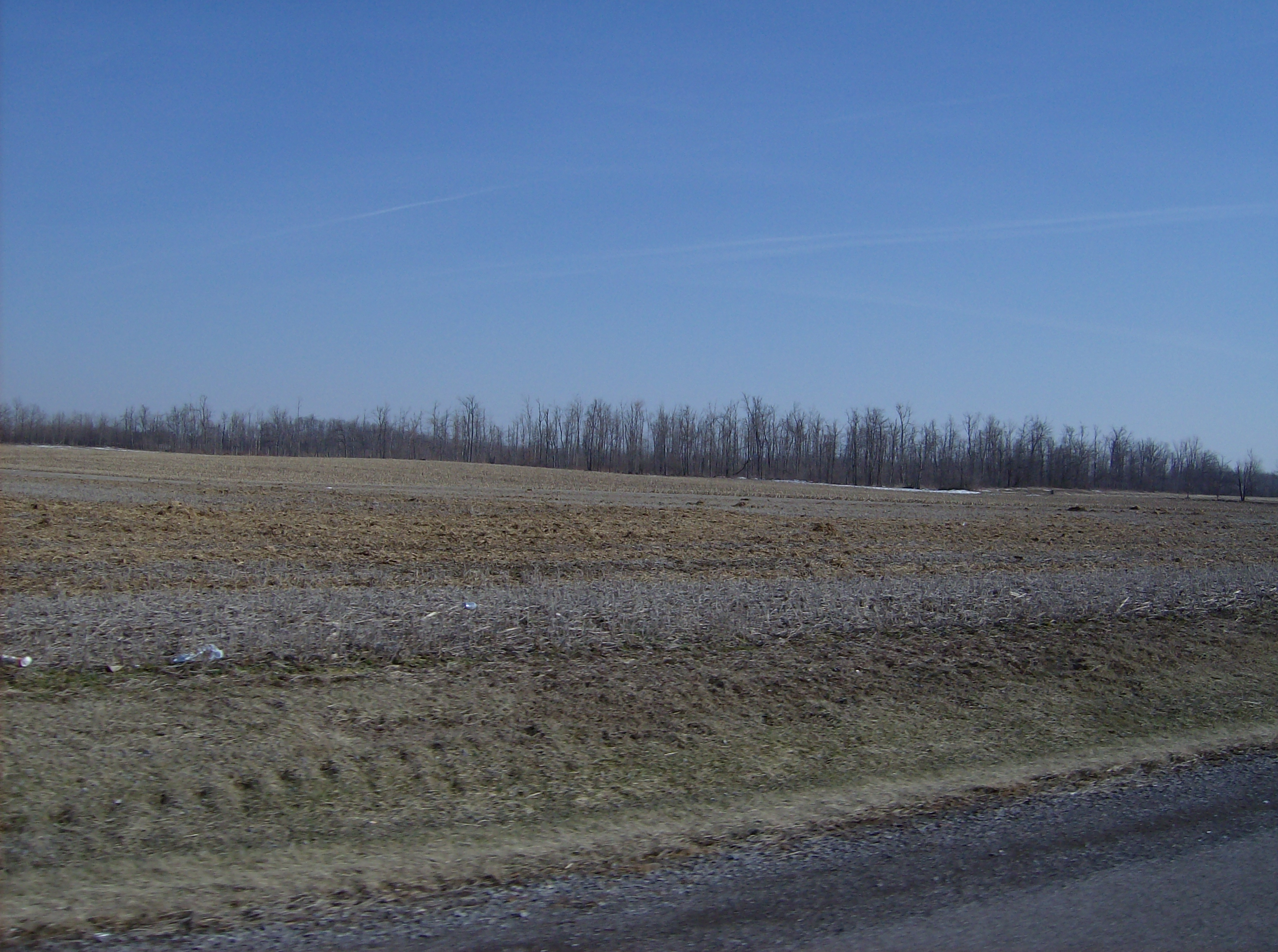 View of countryside in northern Lake Township, Logan County, Ohio, United States, from U.S. Route 68.